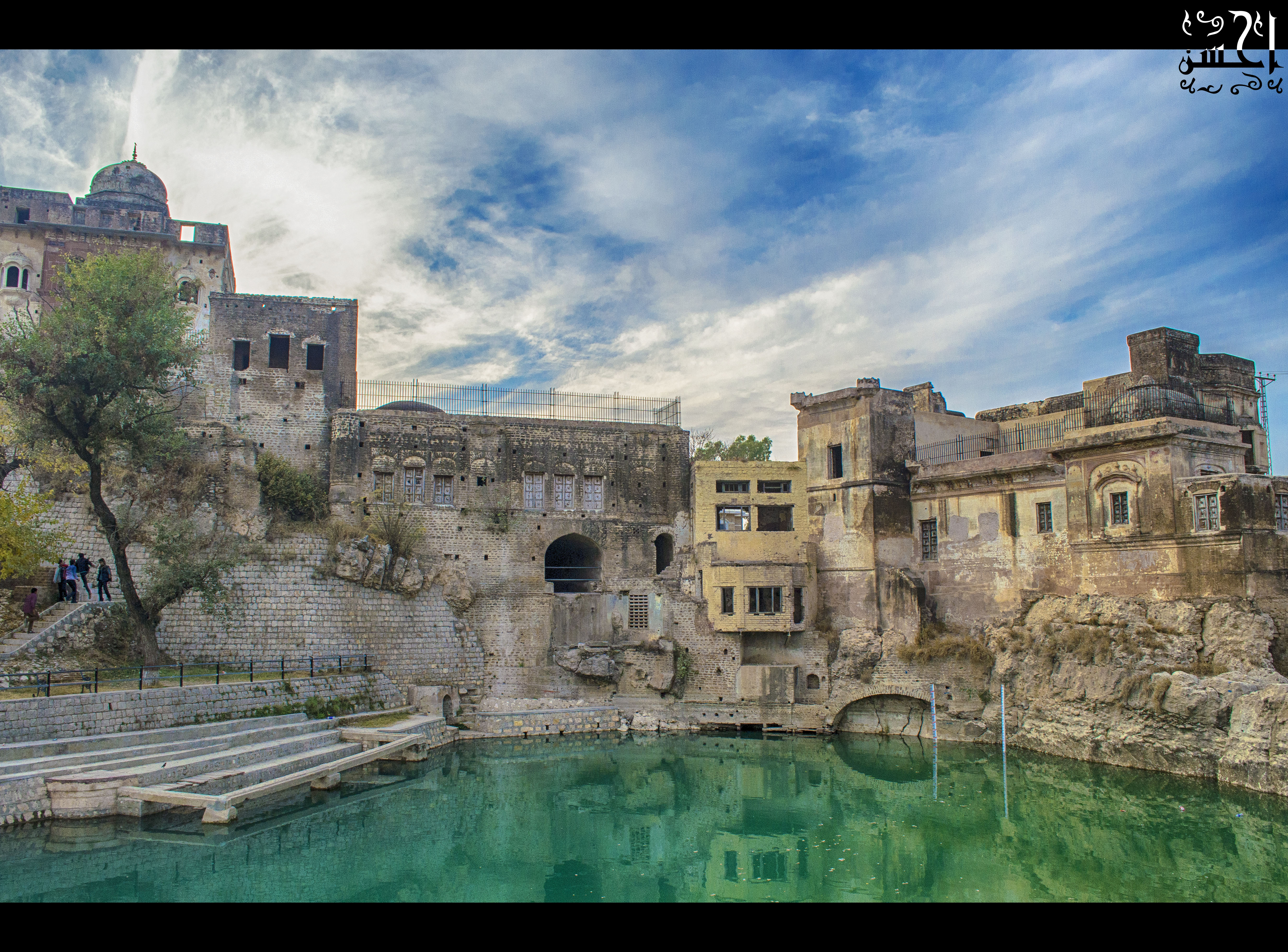 Katas Raj